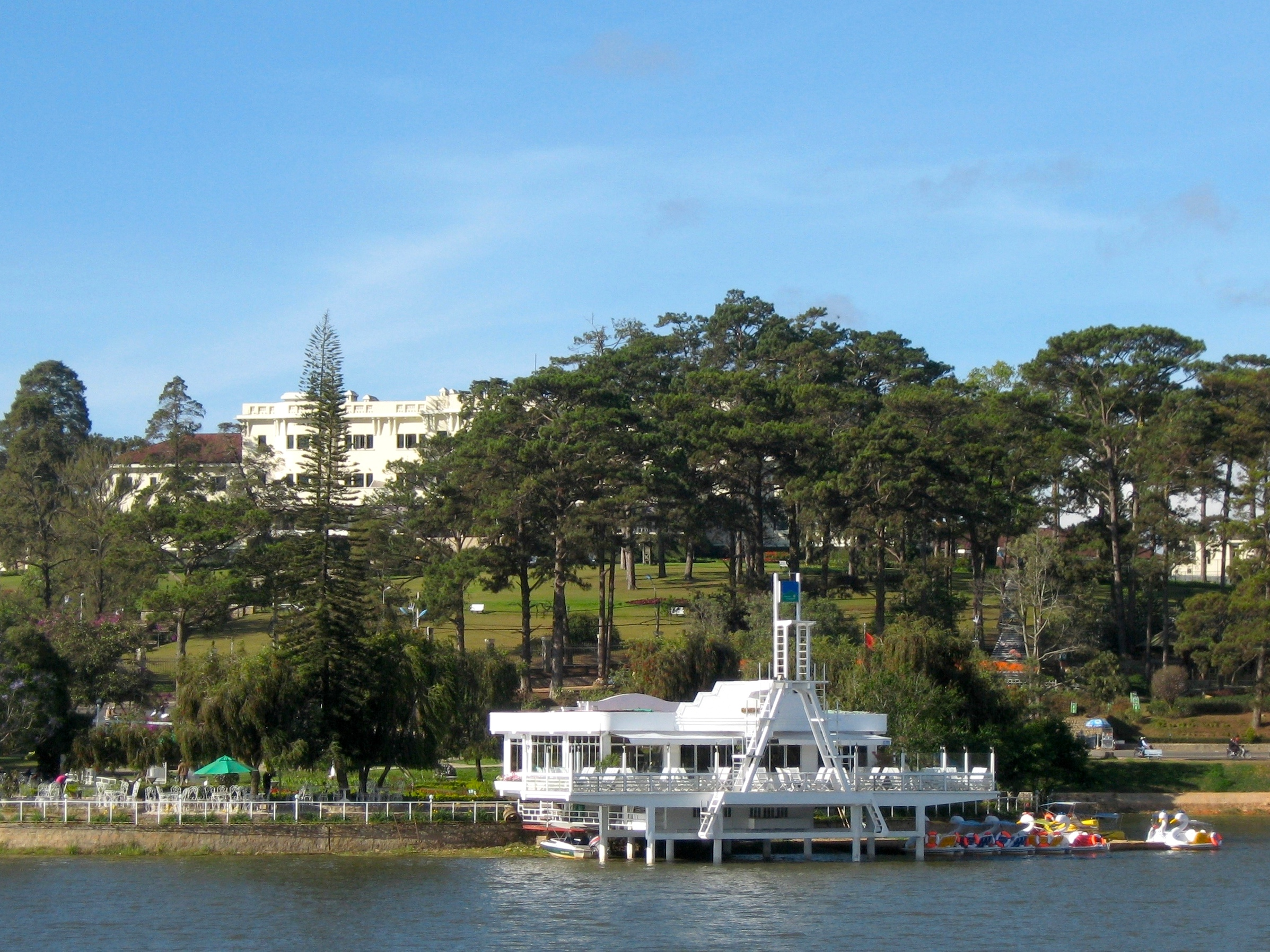 Thuy Ta Restaurant, Da Lat